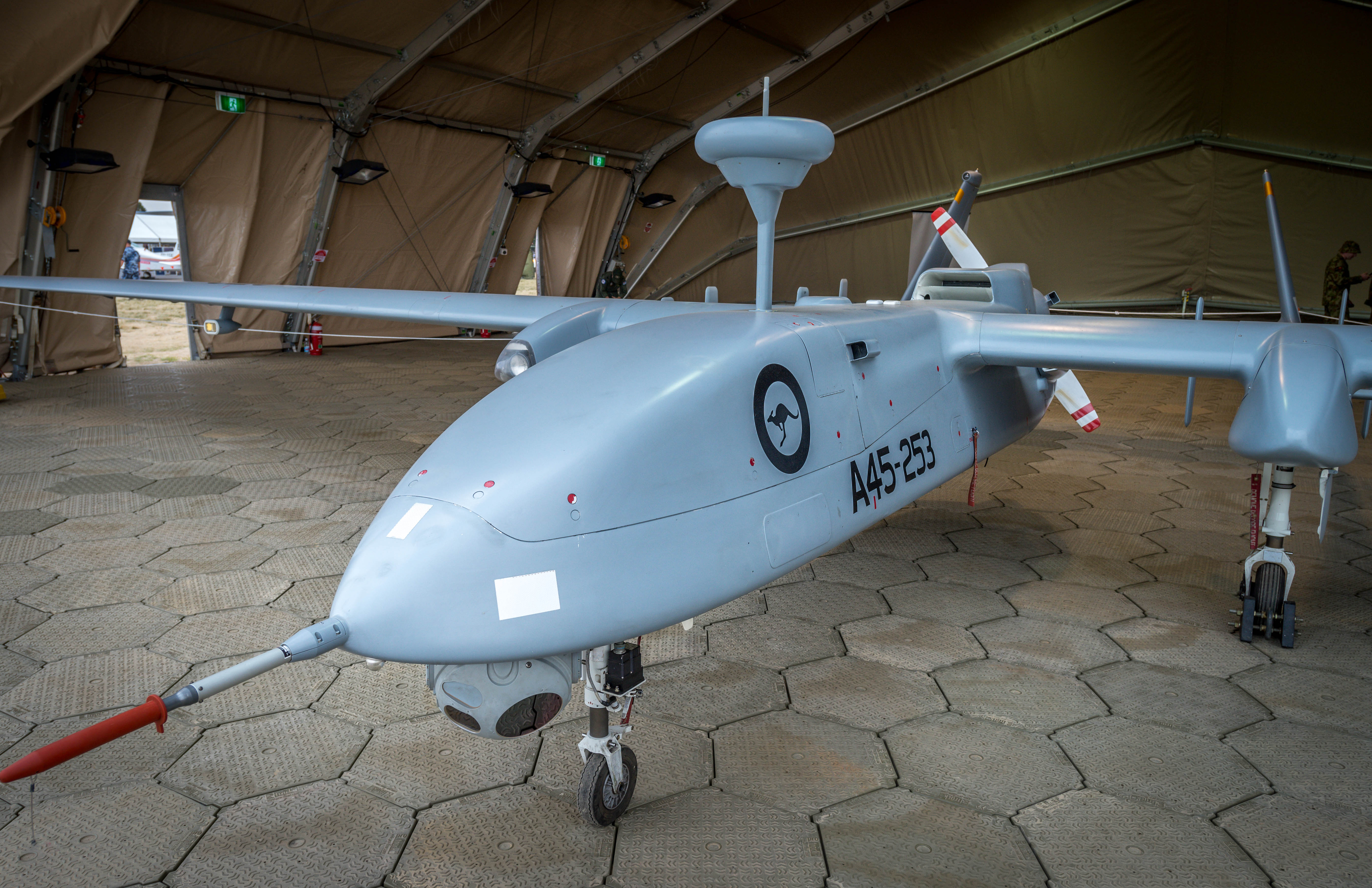 Heron RPA (Remotely Piloted Aircraft) on display at Centenary of Military Aviation 2014